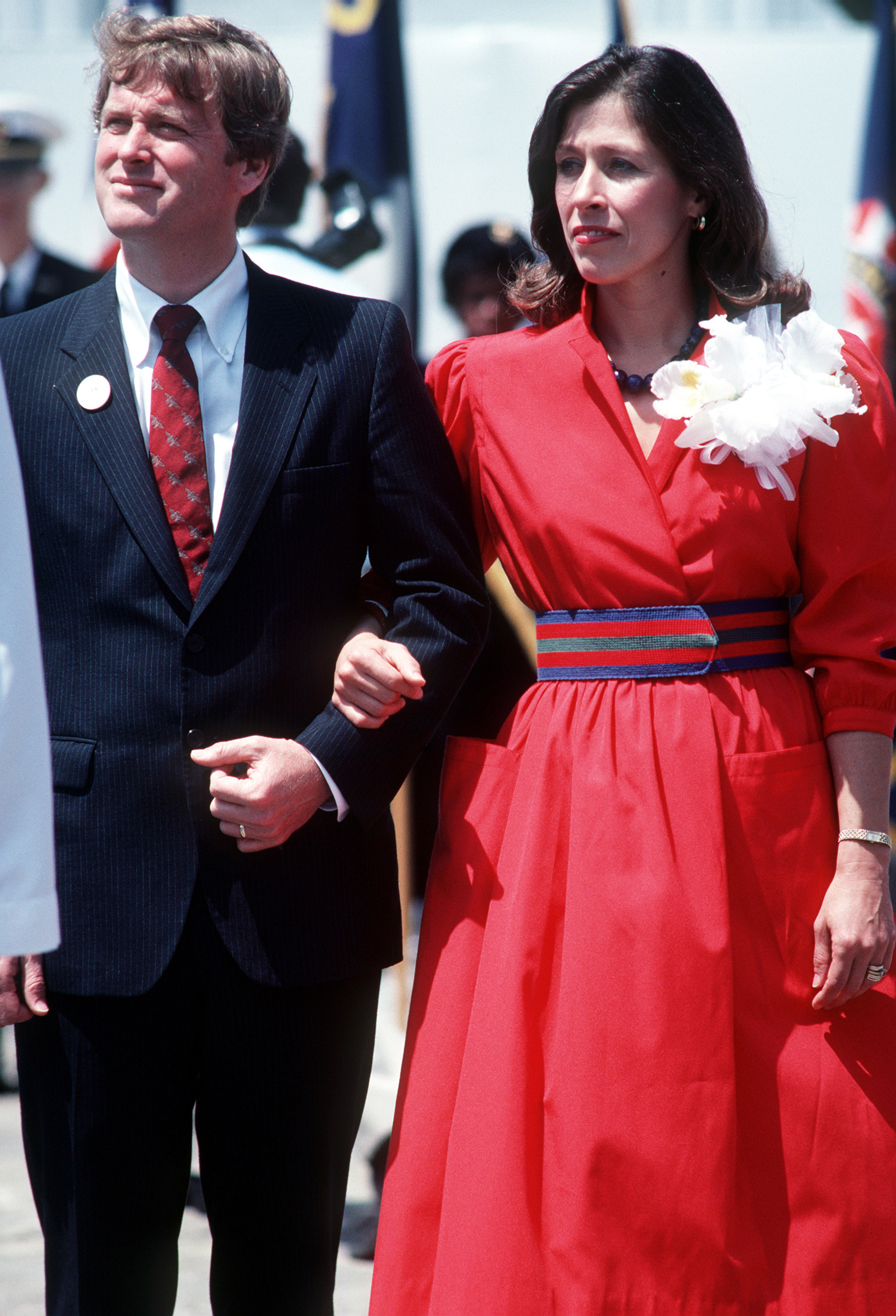 Senator Dan Quayle (R-IN) and his wife Marilyn attend the launching ceremony for the Aegis guided missile cruiser USS VINCENNES (CG 49) at Ingalls Shipbuilding Corp.